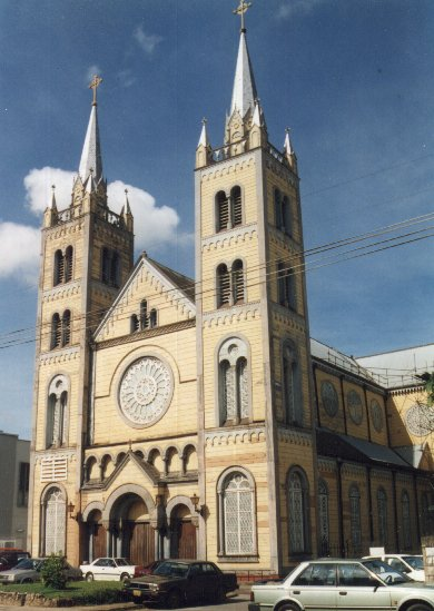 National Cathedral in the center of the capital.